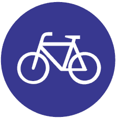 Luxembourg road sign diagram